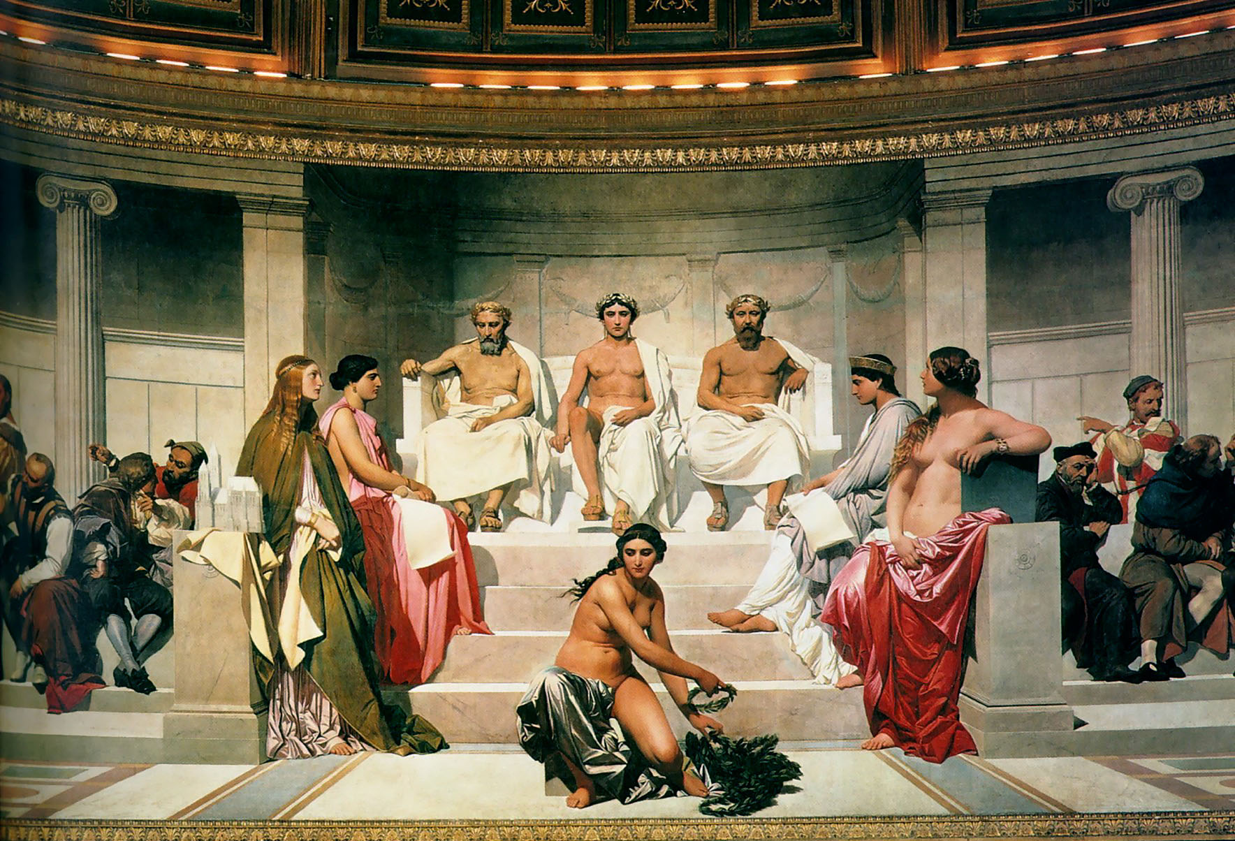 Central portion of "L'Hémicycle des Beaux-arts" by Paul Delaroche. École nationale supérieure des beaux-arts, Paris. Oil and wax on wall.